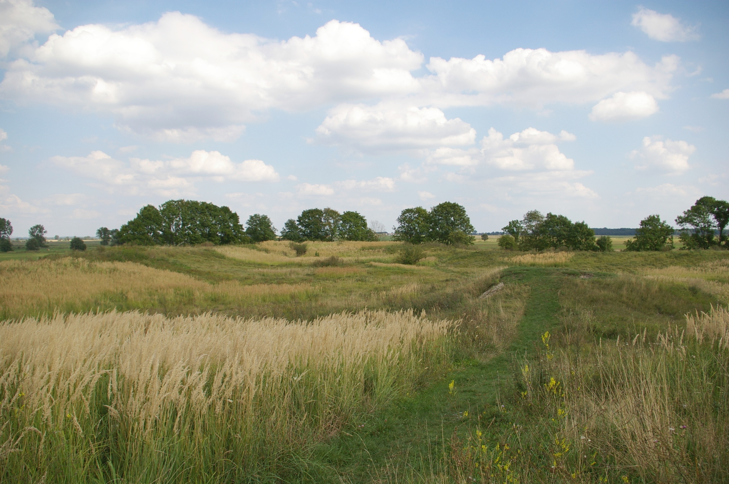 The hill fort in Wiślica